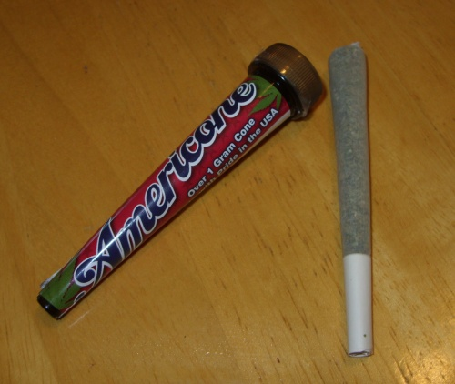 Commercially prepared American medical cannabis cone joint (spliff) by Americone purchased at a medical cannabis dispensary